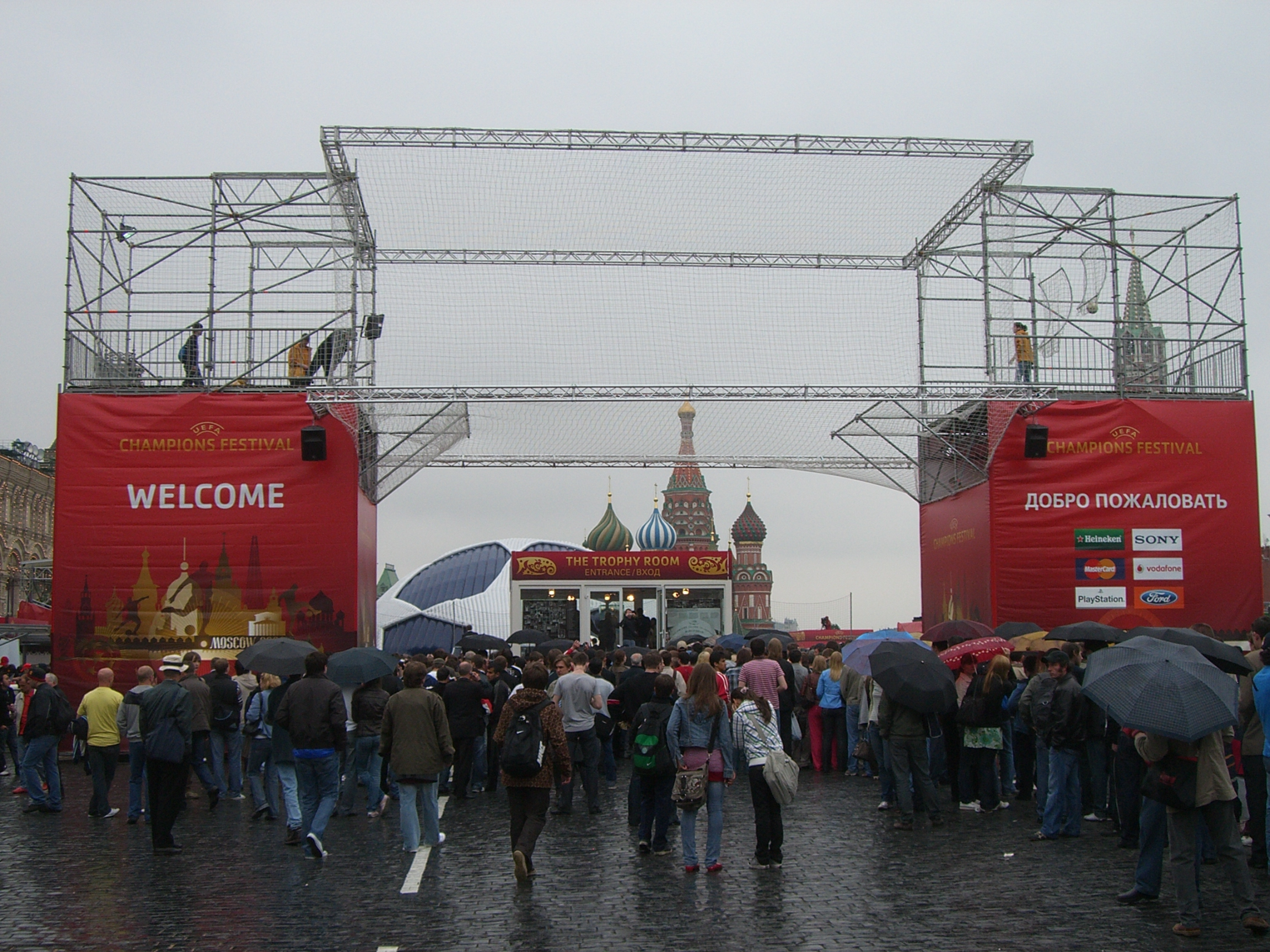 The entrance to the UEFA Champions Festival in Red Square, Moscow, ahead of the 2008 UEFA Champions League Final.